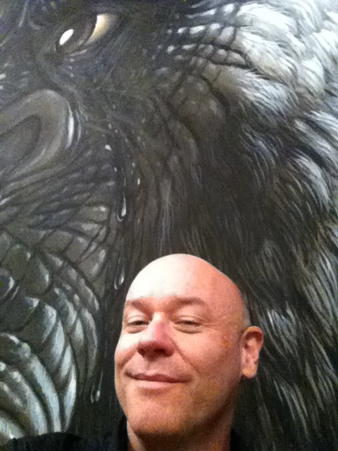 Walton Ford 2011